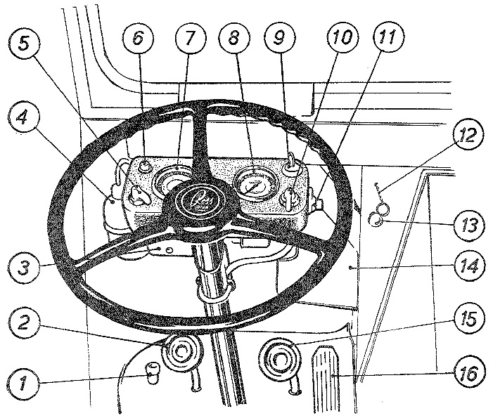 Sisu KB-24 dashboard. 1. Dip switch 2. Clutch pedal 3. Fuse block 4. Water container 5. Light switch 6. Start switch 7. Combination gauge 8. Odometer and speedometer 9. Ignition lock 10. Indicator switch 11. Heater switch 12. Radiator blind adjustment chain 13. Cold start choke 14. Heater 15. Brake pedal 16. Accelerator.